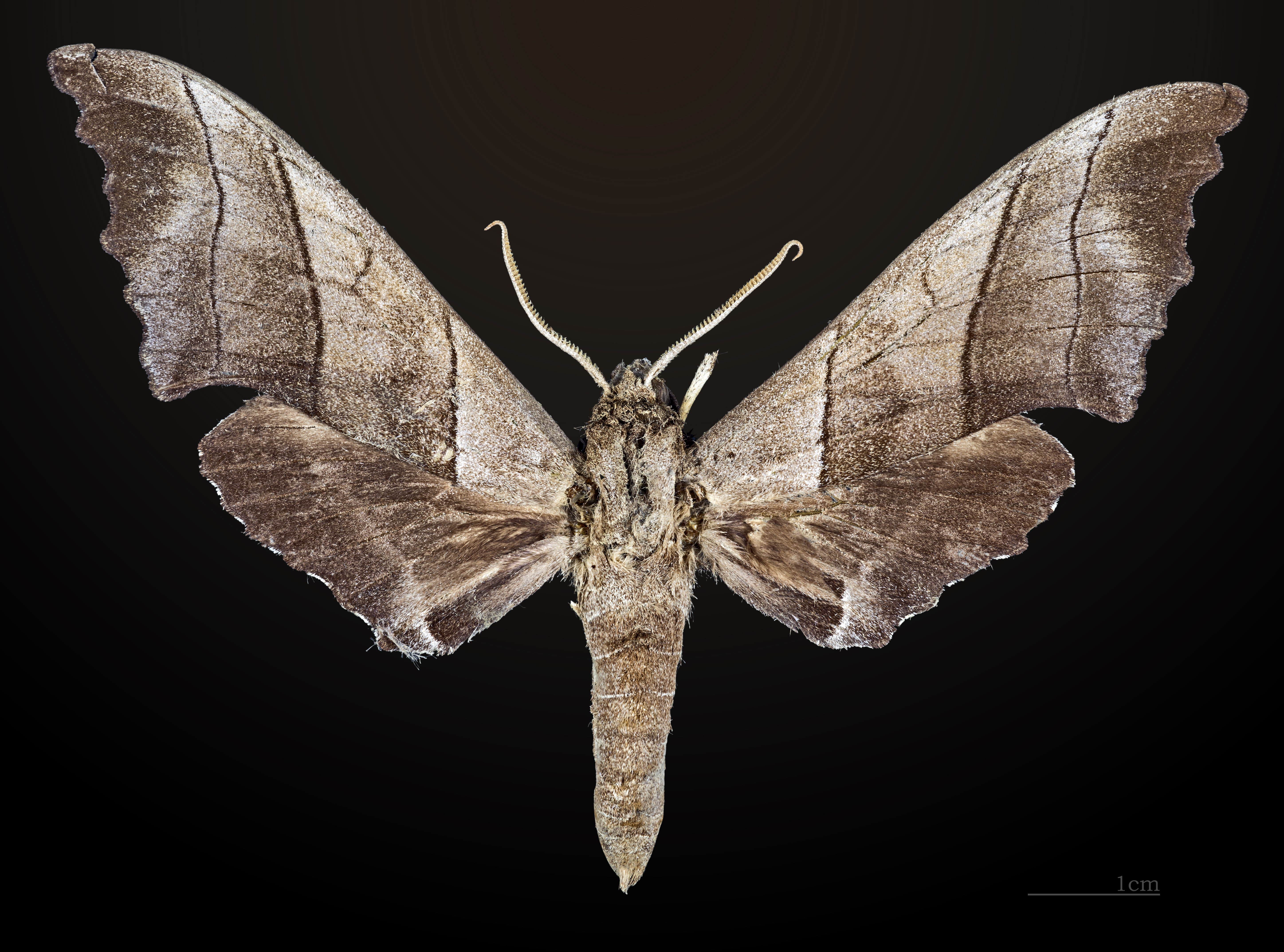 Polyptychus chinensis - Dorsal side Collection of the Mathematician Laurent Schwartz